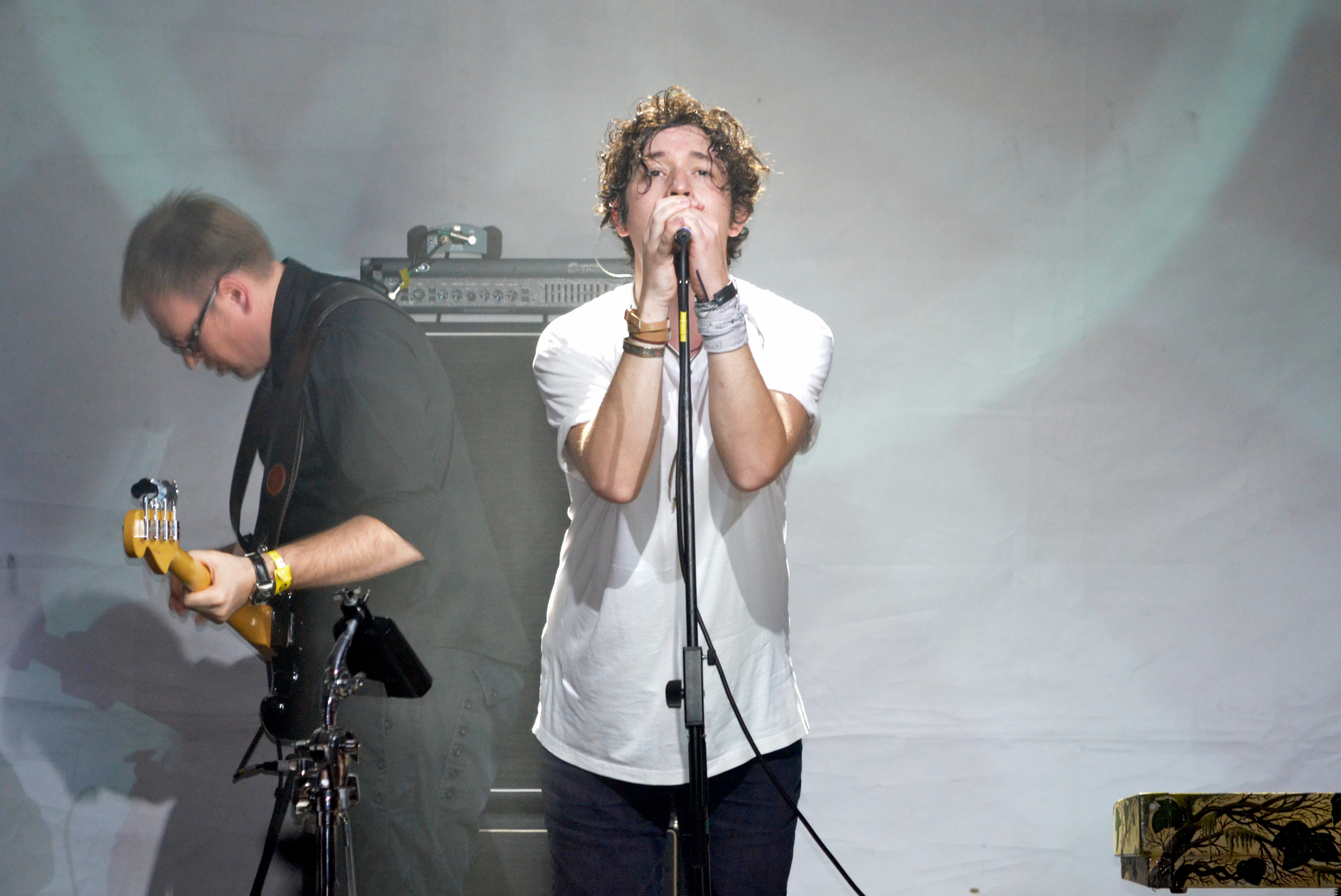 Pianoboy in the Green Theatre